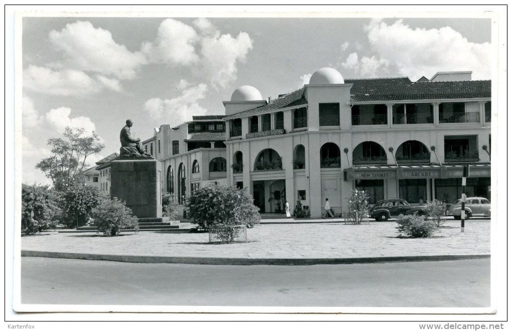 New Stanley Hotel c1950